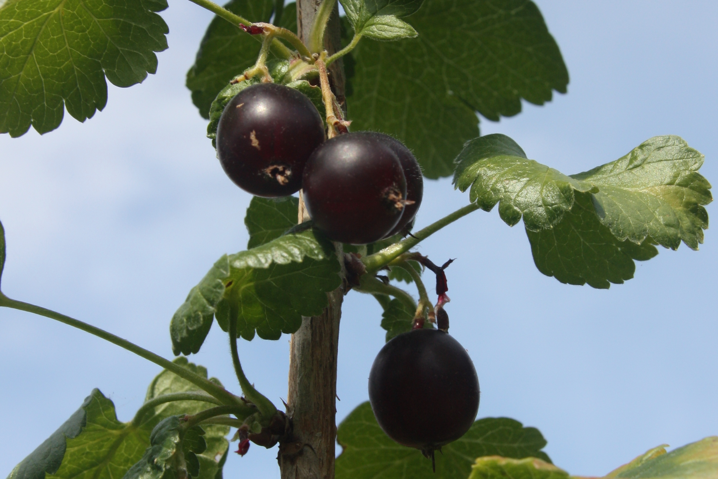 Mature fruits of jostaberry.